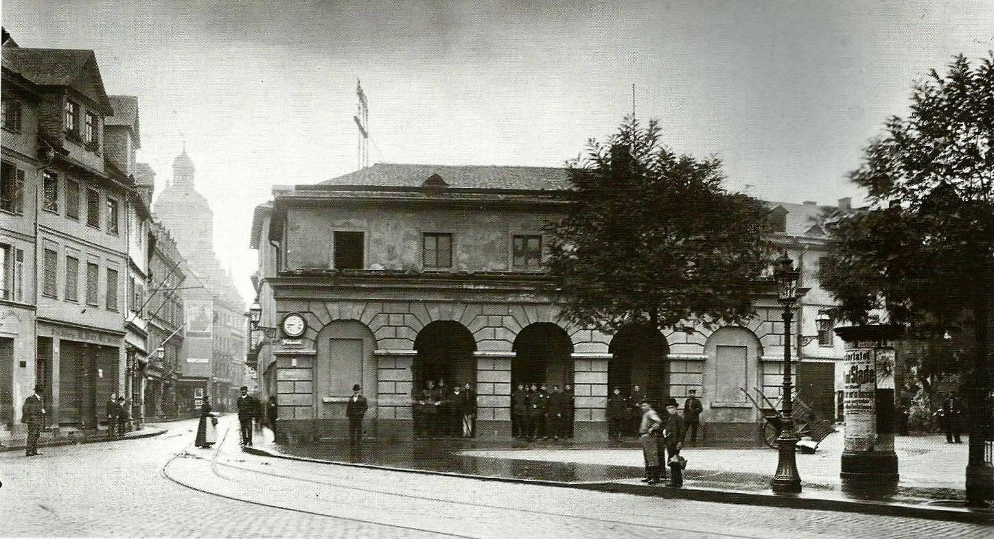 Main Guardhouse of the Austrian garrison of Mainz, fortress of the German Confederation.